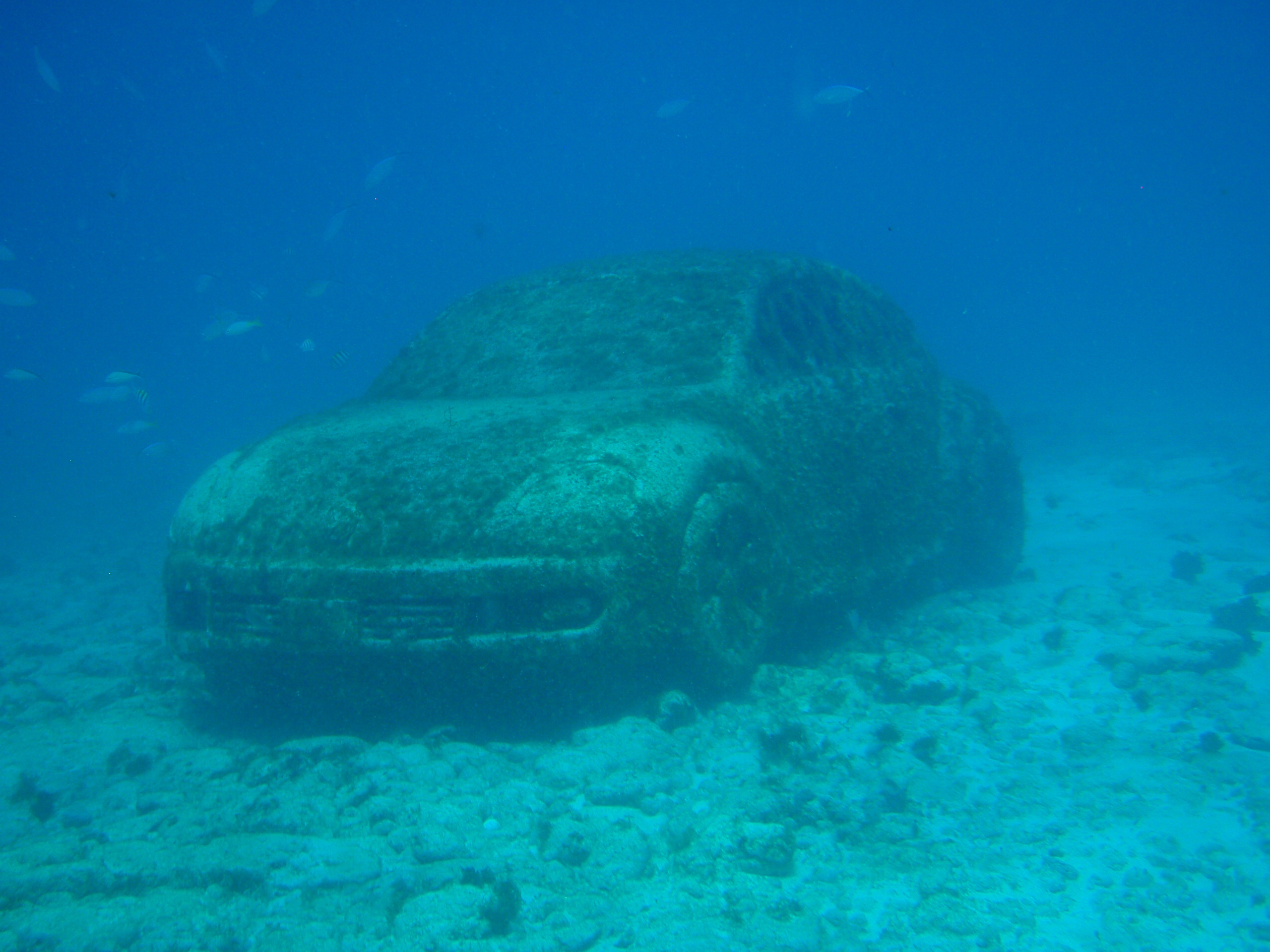 At Museo Subacuatico de Arte, aka MUSA, between Cancun and Isla Mujeres, Mexico